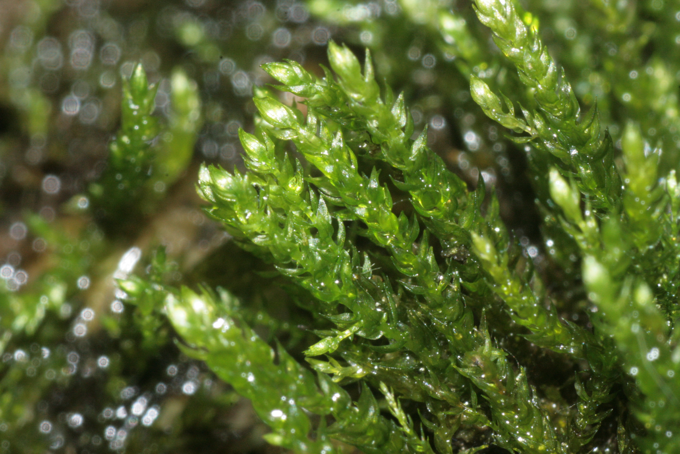 Hygroamblystegium fluviatile